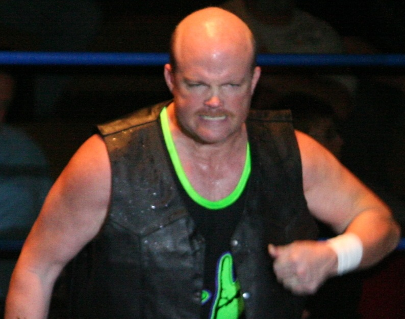 An image of professional wrestler C.W. Anderson. Other information This is a cropped version of a free use image from Wikimedia.